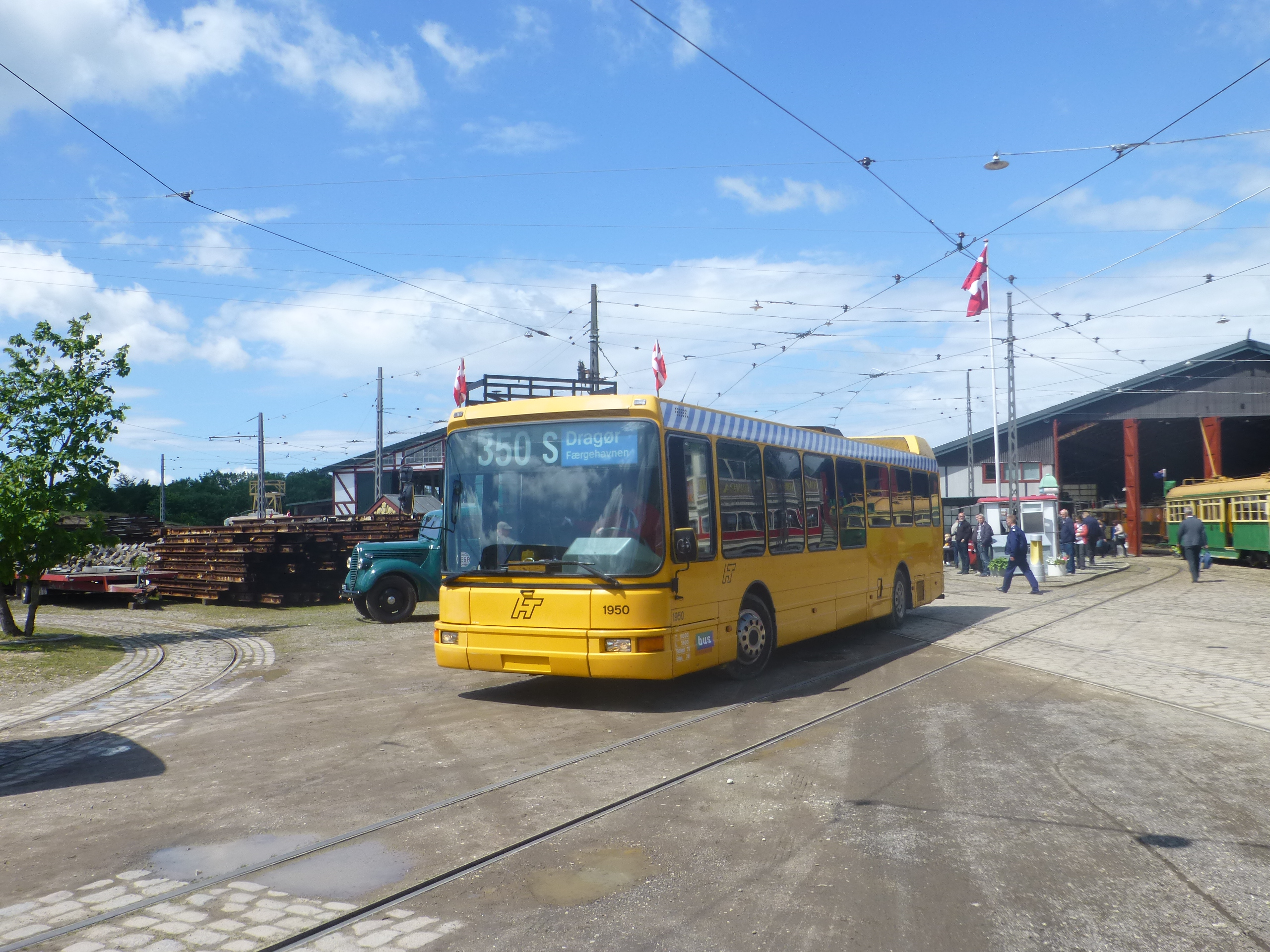 Tram parade at Sporvejsmuseet Skjoldenæsholm due to celebrating of 50 years of the Danish tramway society, Sporvejshistorisk Selskab. Bus from Copenhagen, BusDanmark 1950 from 1995.